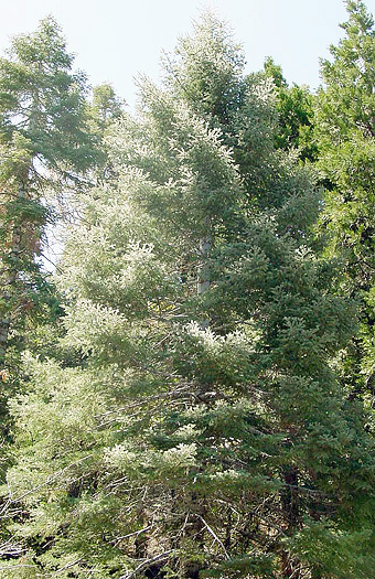 Abies alba